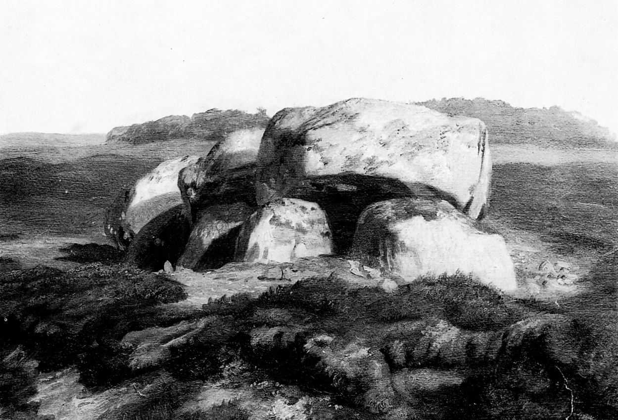 Megalithic tomb near Elstorf, painting by Jakob Gensler